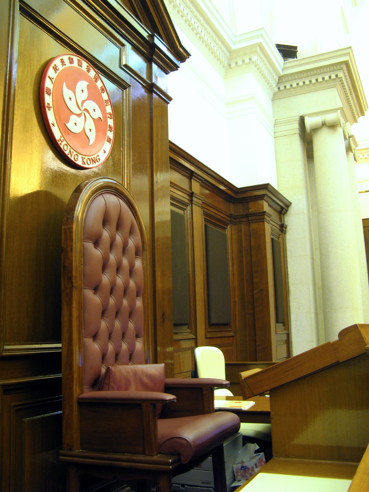 Hong Kong Legislative Council Building Chamber President Seat